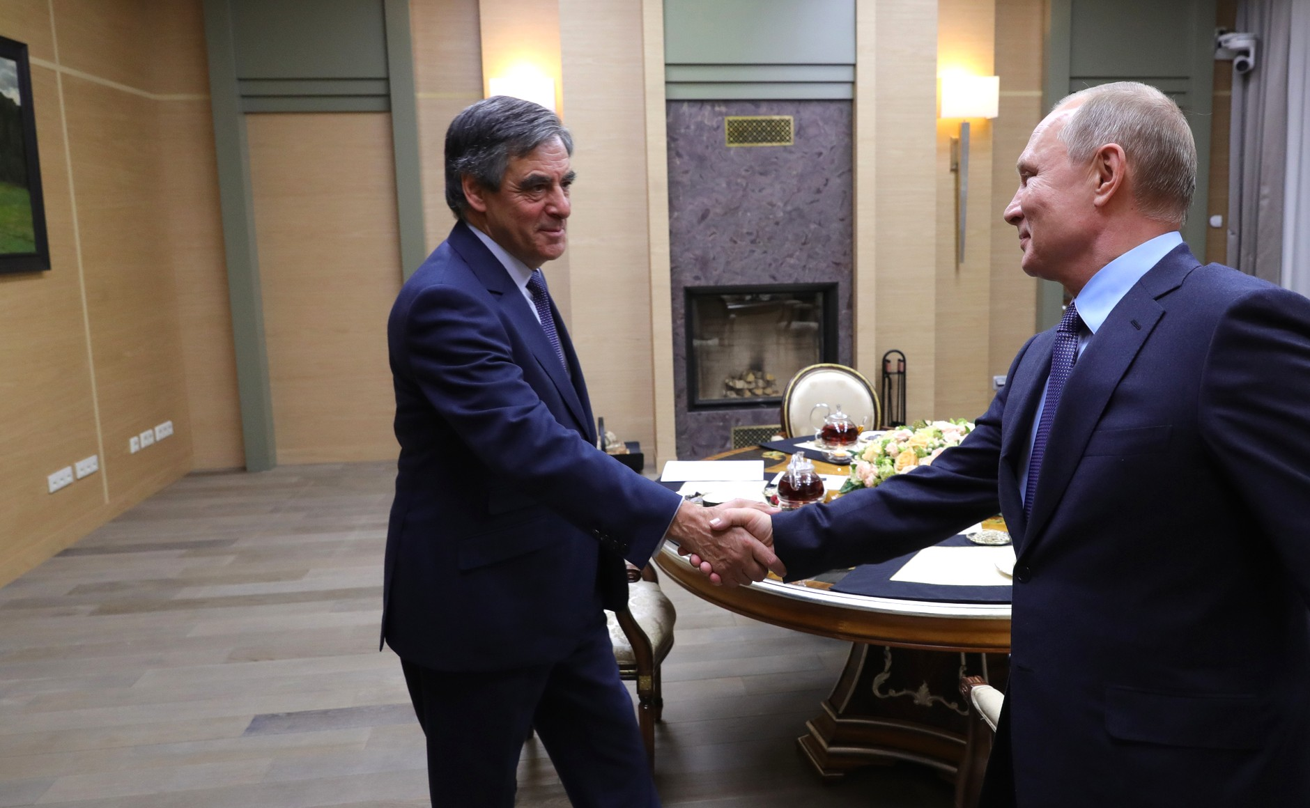 Vladimir Putin met with Francois Fillon, who was Prime Minister of the French Republic from 2007 to 2012, at Novo-Ogaryovo.